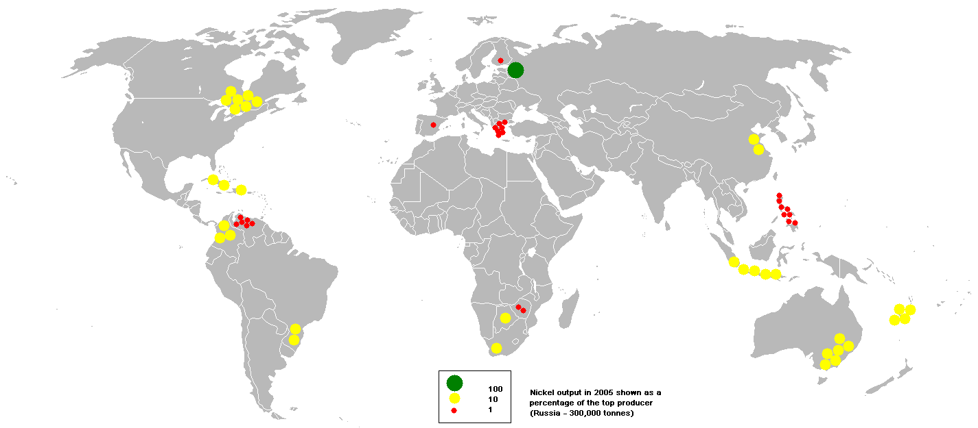 This bubble map shows the global distribution of nickel output in 2005 as a percentage of the the top producer (Russia - 300,000 tonnes). This map is consistent with incomplete set of data too as long as the top producer is known. It resolves the accessibility issues faced by colour-coded maps that may not be properly rendered in old computer screens. Data was extracted from on 29th May 2007.